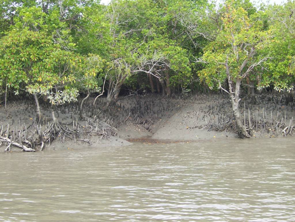 The Sundarban rain forest. mangroves, are so thick here that it is absolutely dark under the tree cover a few metres inside. This little cove shows how dense things really are. The tide is now at mid-level, and the "breathing roots" are clearly visible here.